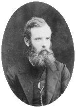 Huge MacColl. mathematician (1837-1909)